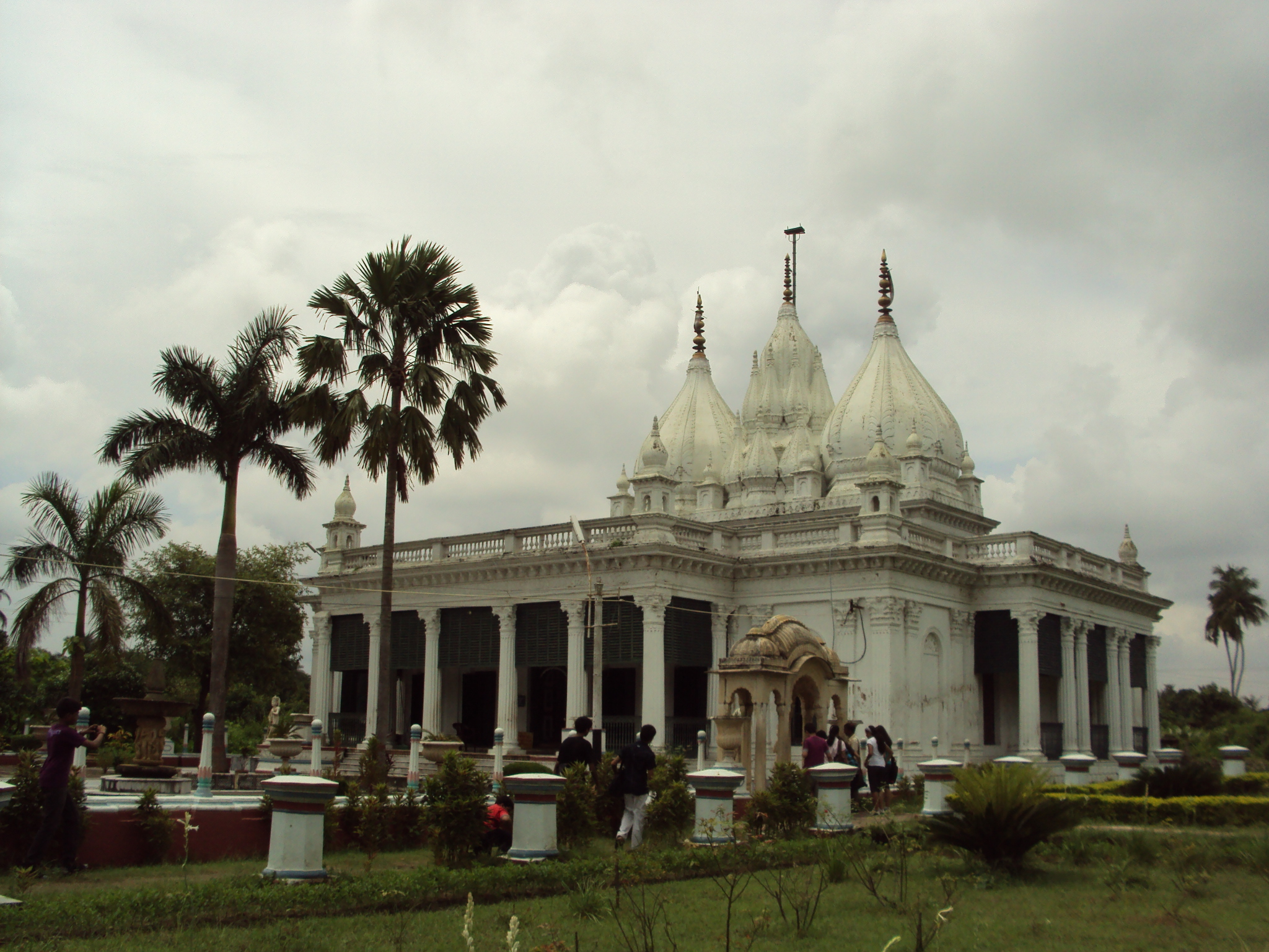 Pareshnath Temple in the Katgola Gardens